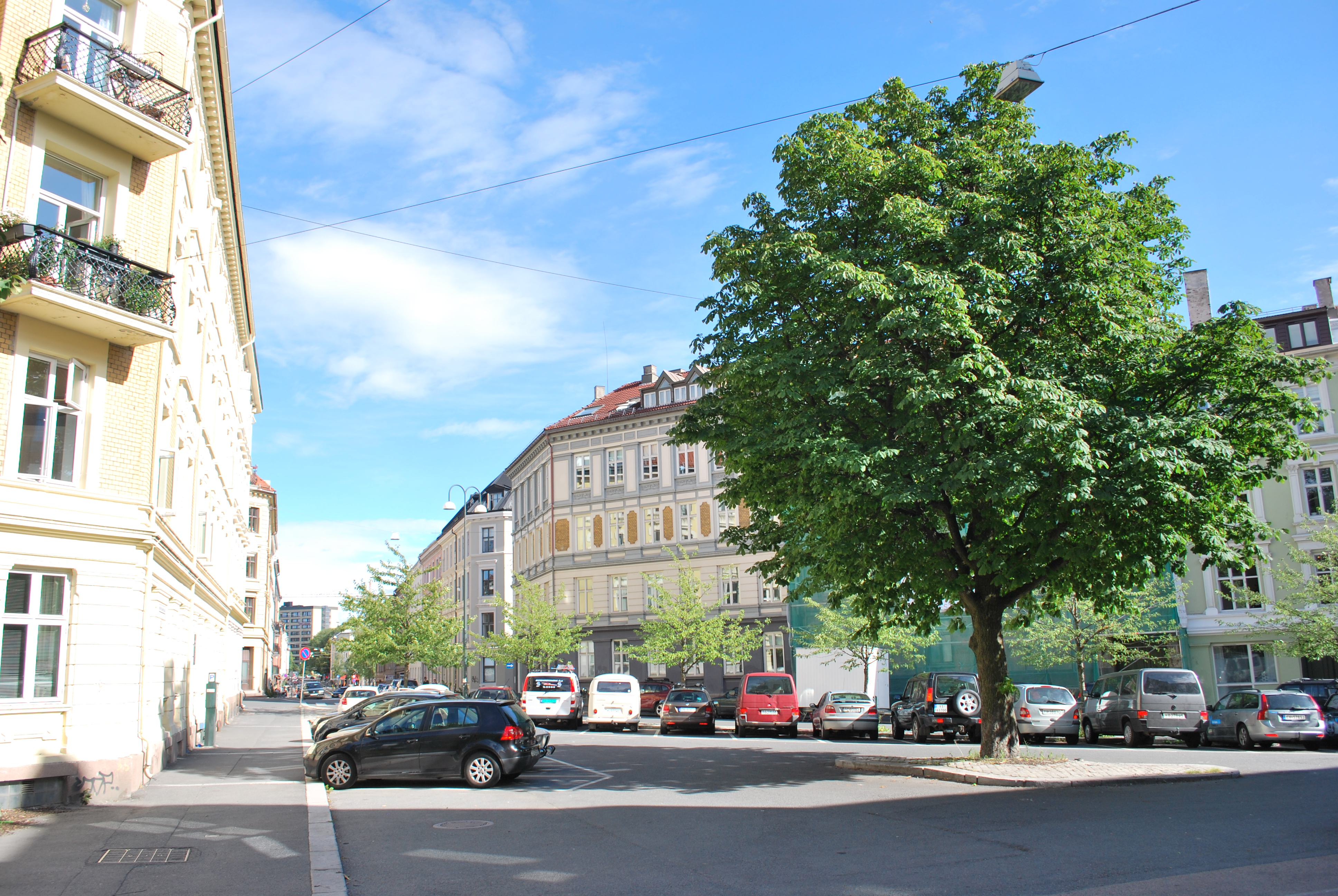 Nini Roll Ankers plass (square), Grünerløkka, Oslo